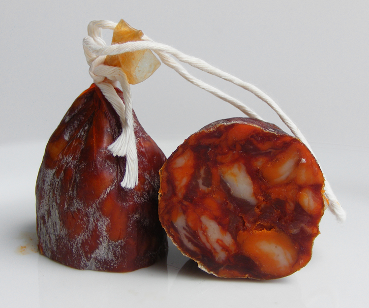 Chorizo from Spanish Delicateness Shop Juan Luis, Rotterdam.